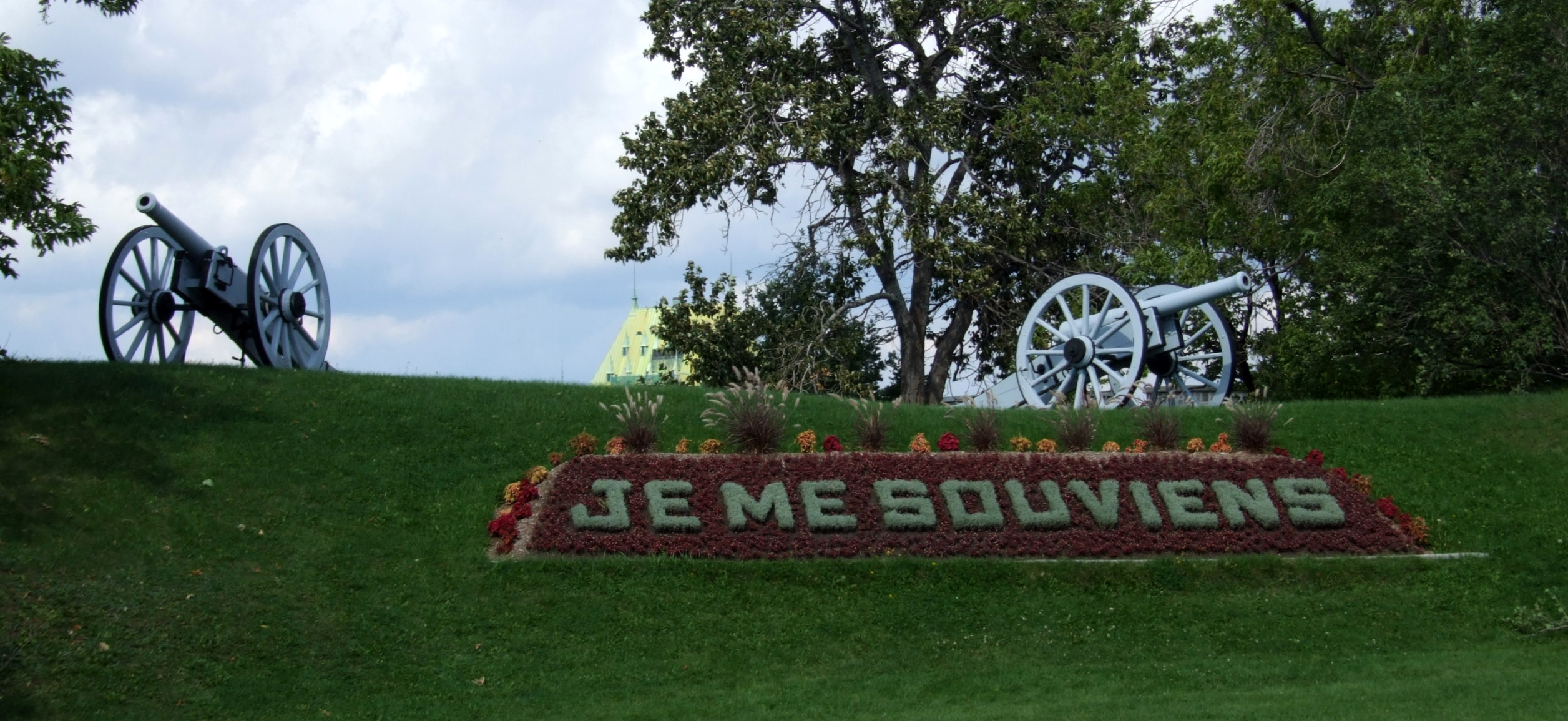 Quebec city, CANADA